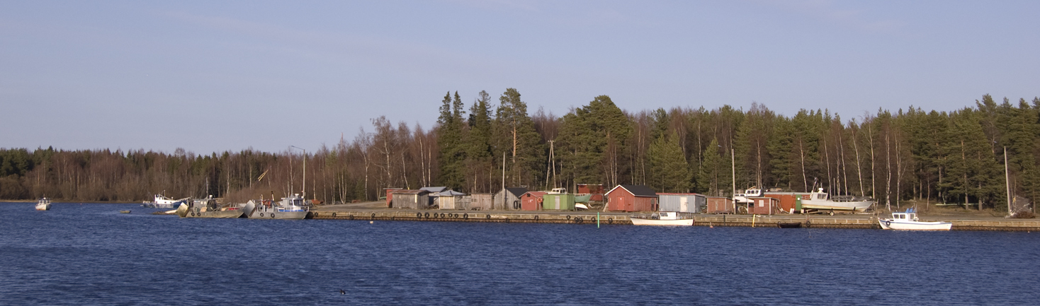 View of Kurtinhauta fishing harbour in Haukipudas, Finland.